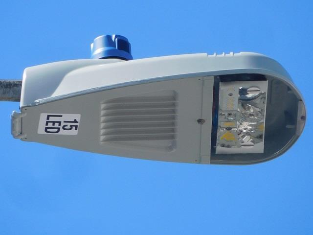 History of street lighting: General Electric Evolve ERL1 - 15 watt version found in Watertown, Massachusetts